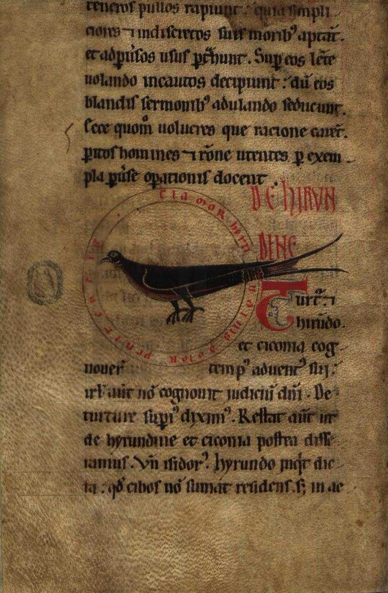 Livro das Aves: the Swallow